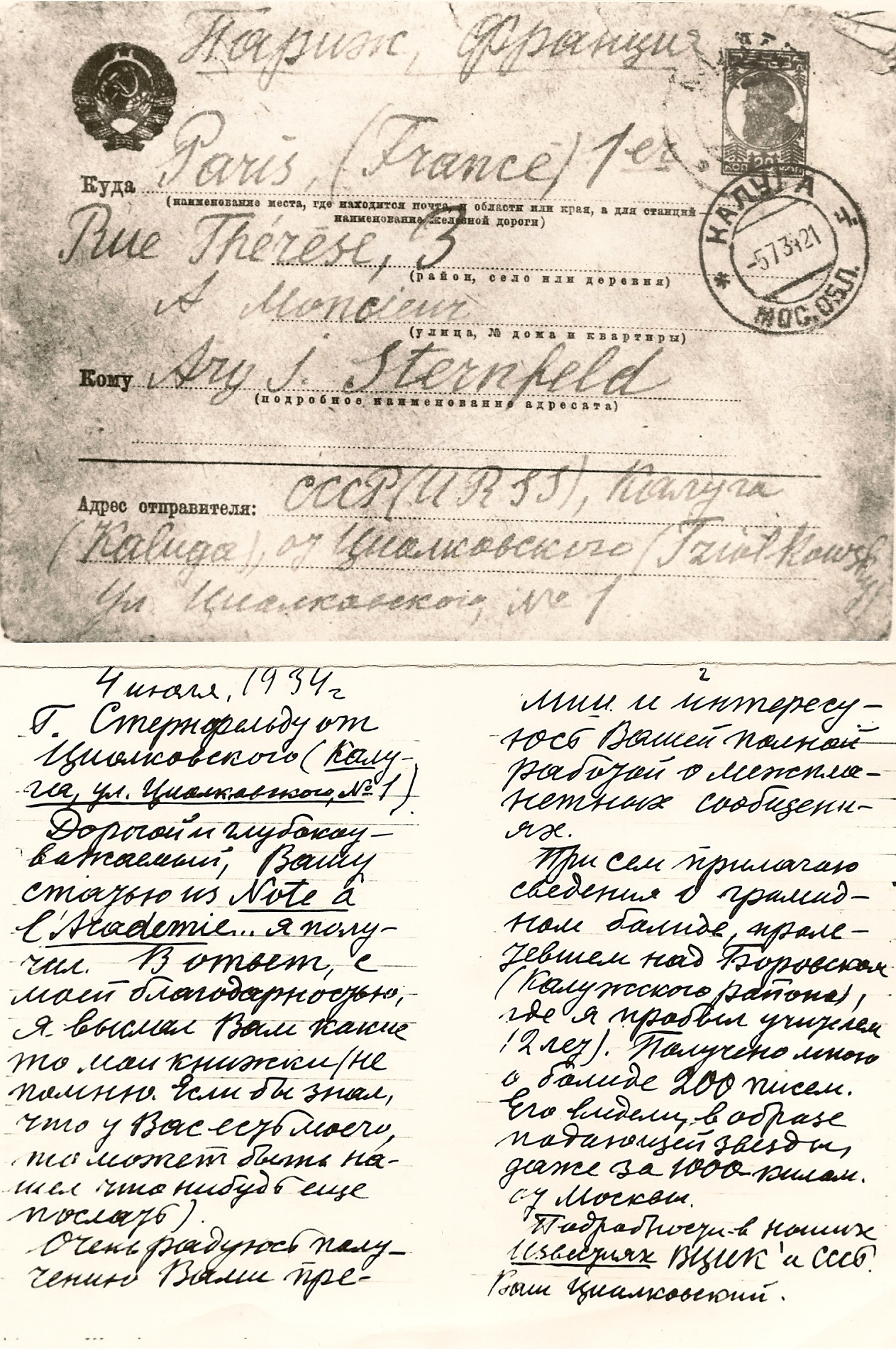 The last Tsiolkovsky’s letter from Kaluga to Paris to Ari Sternfeld. 07/04/1934.